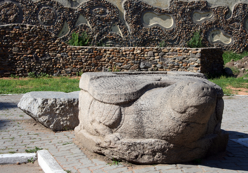 A stone tortoise in the central park of Ussuriysk. It was found in 1868, and is believed to have been a graevstone of a circa-12th century Jurchen leader.